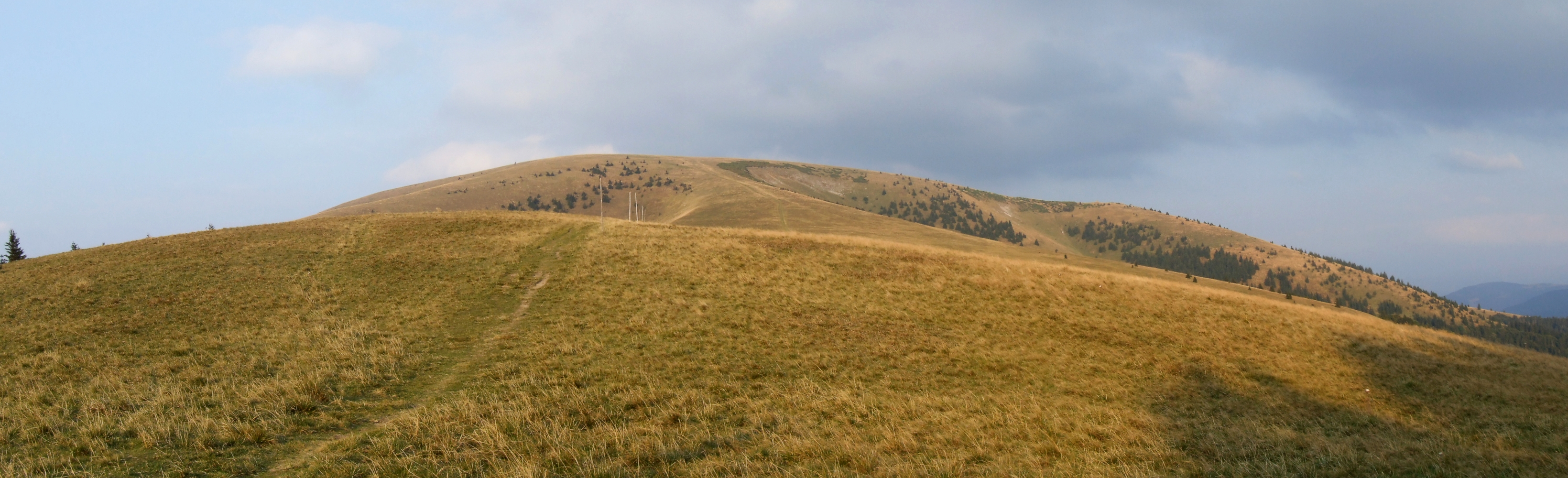 Mount Ploská, Veľká Fatra